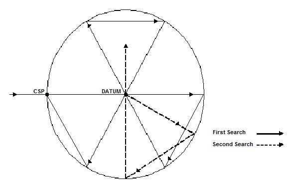 The sector search, a SAR search pattern used by one ship, usually a fast rescue boat. It is mostly used in man overboard operations.